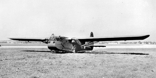 Waco XPG-2 powered glider.